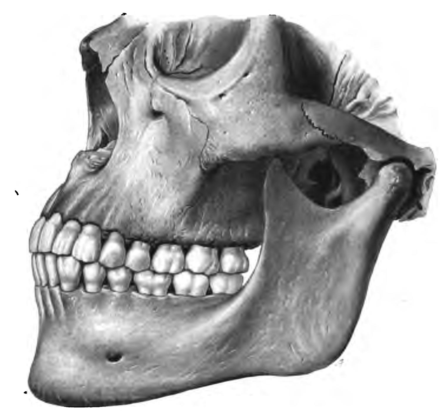 An anatomical illustration from the 1906 edition of Sobotta's Atlas and Text-book of Human Anatomy with English terminology.